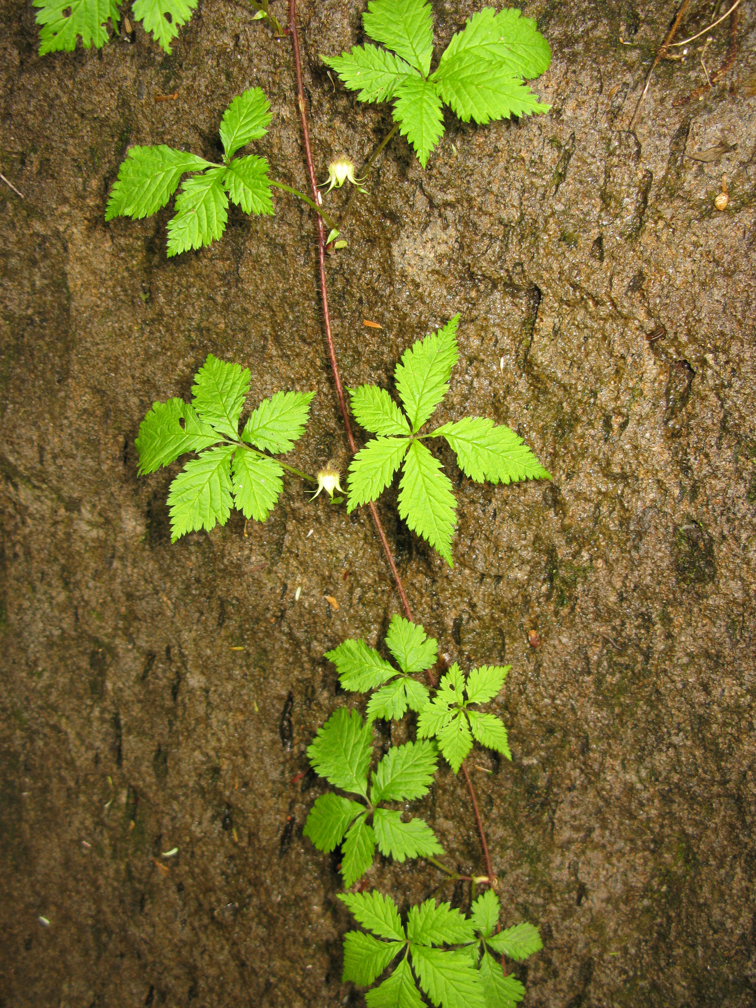 Rubus ikenoensis,Aizu area,Fukushima pref.,Japan